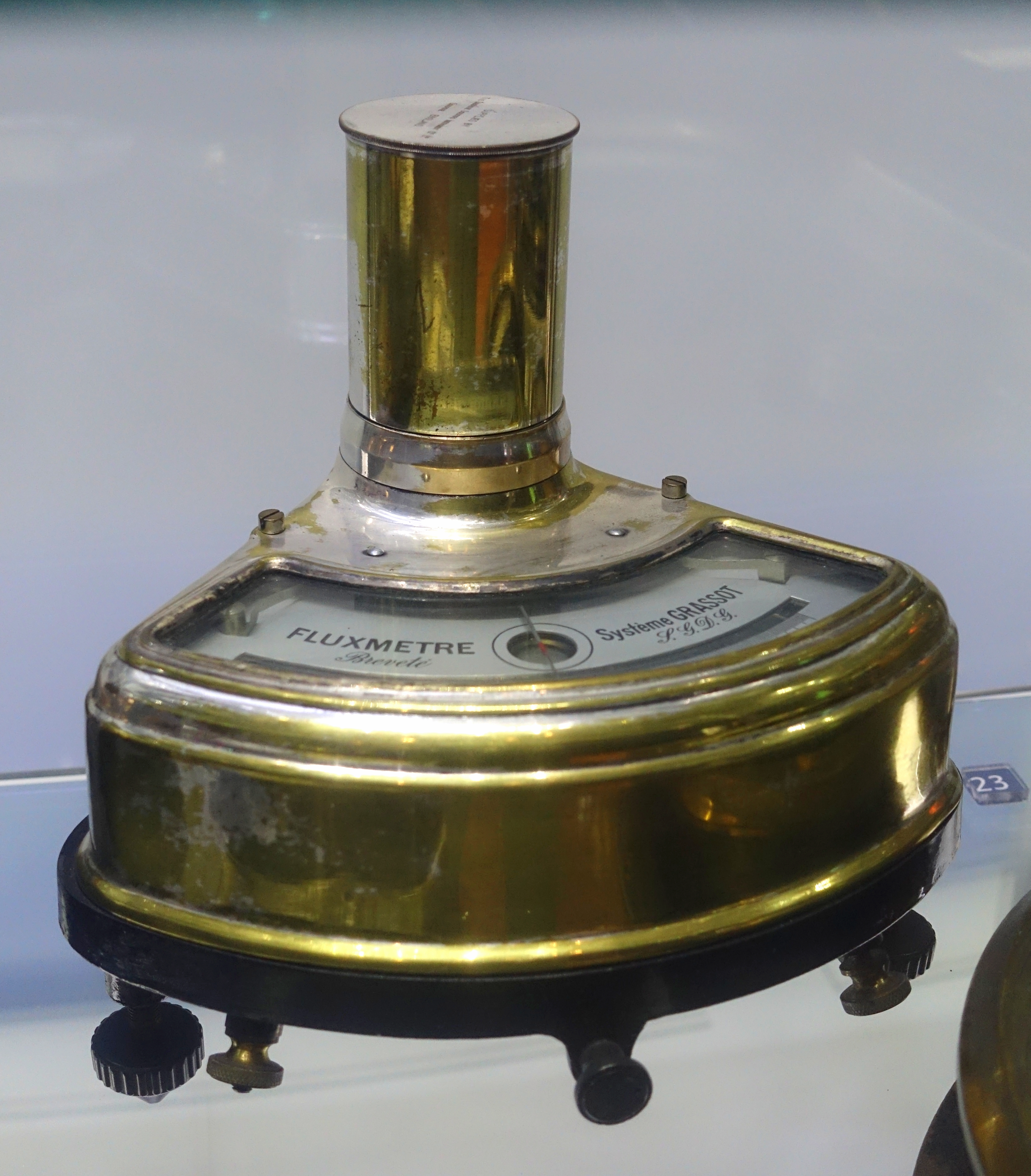 Exhibit in the Museum of Science and Industry, Chicago, Illinois, USA.